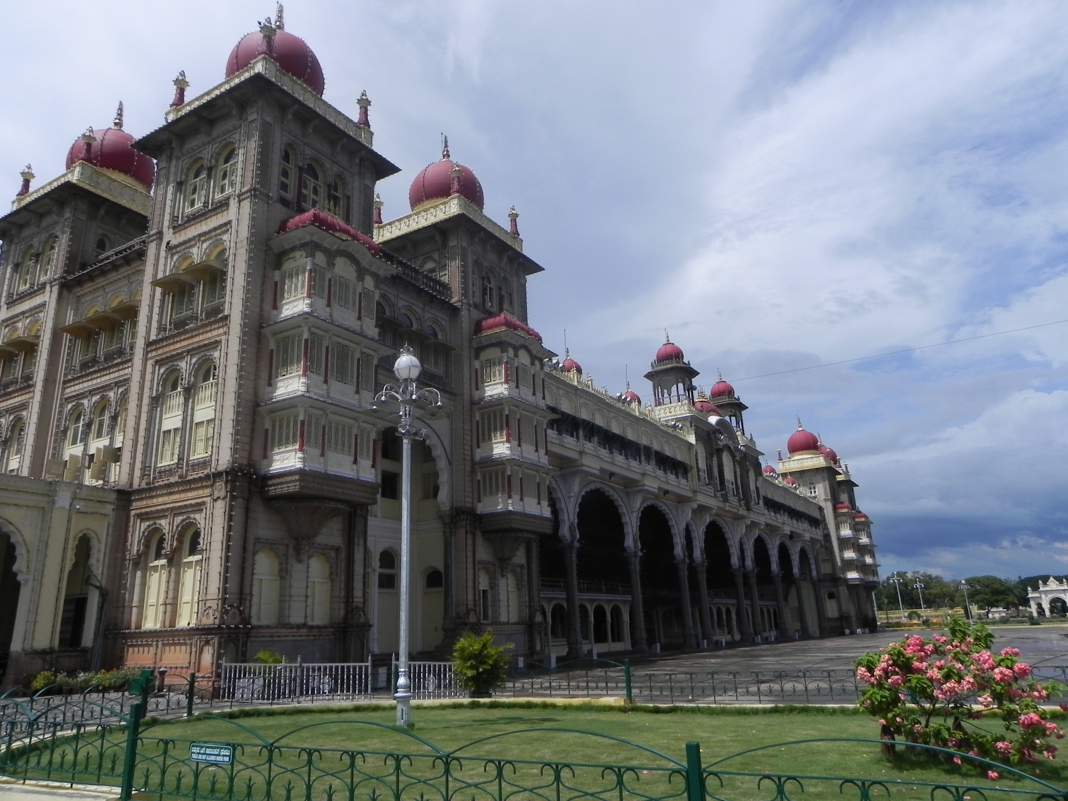 Palace in Mysore